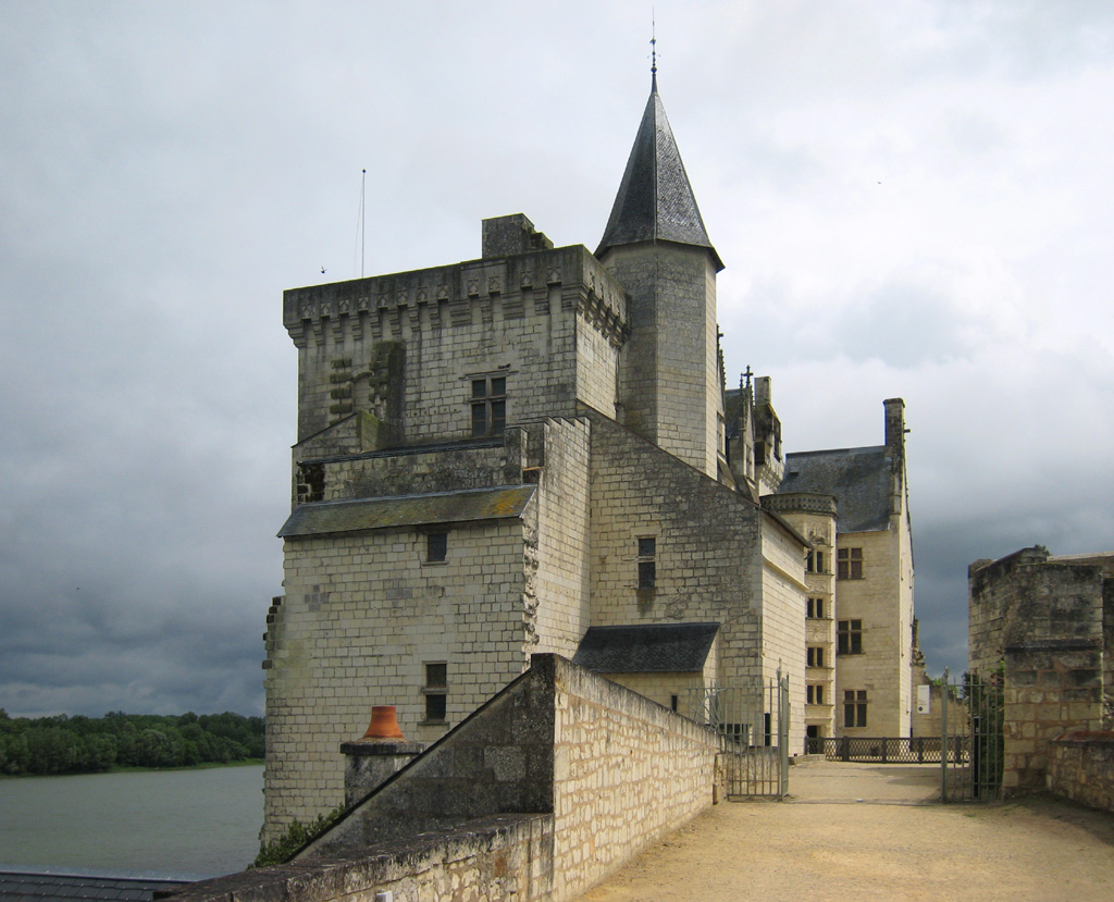 Castle Montsoreau on the Loire river near Saumur in France This building is en partie classé, en partie inscrit au titre des Monuments Historiques. It is indexed in the Base Mérimée, a database of architectural heritage maintained by the French Ministry of Culture, under the references IA49009670 and PA00109211 .